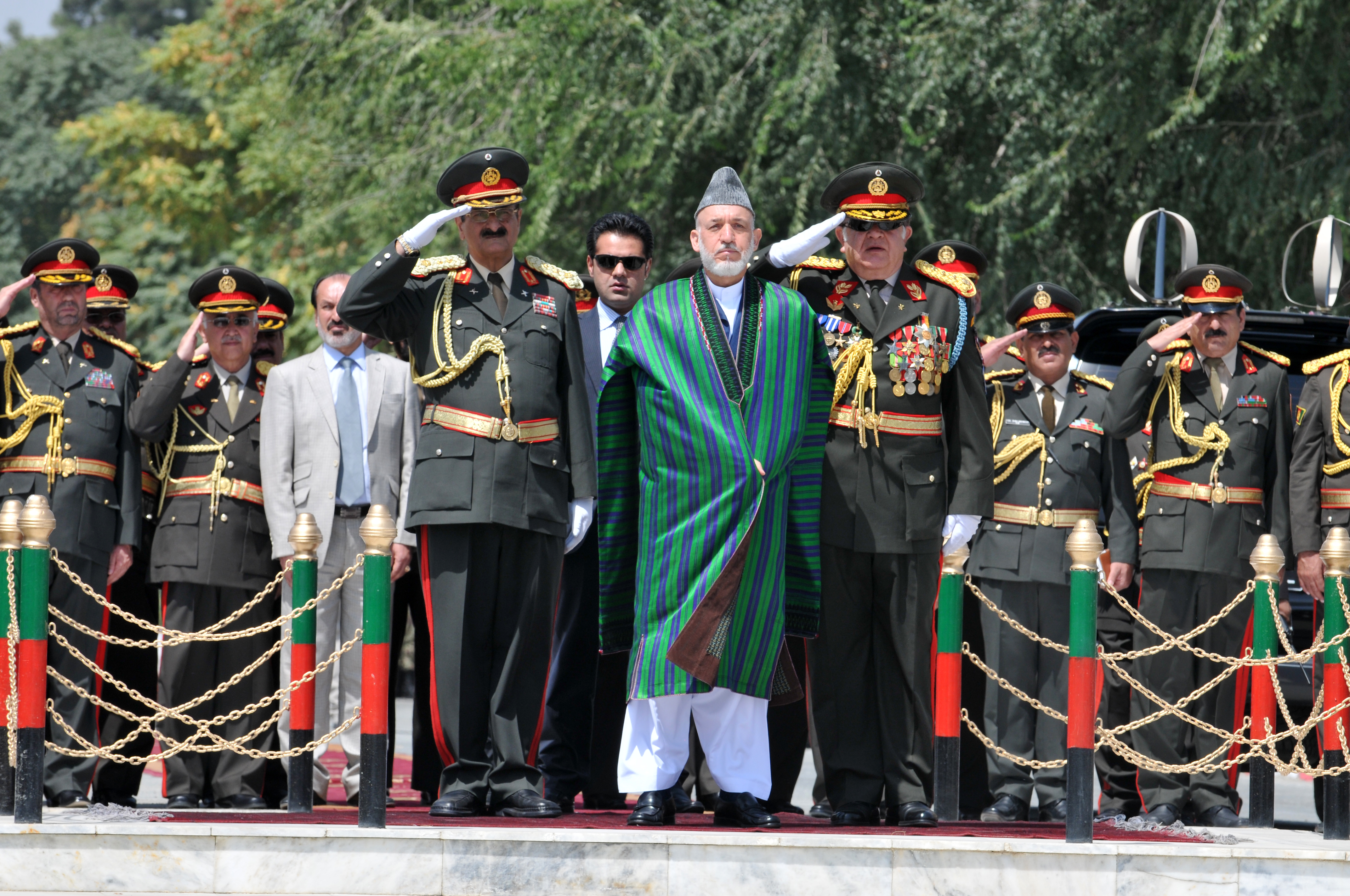 Participants in the Afghanistan Independence Day celebration held at the Ministry of National Defense in Kabul, Aug. 19, pay their respects during the playing of the Afghan national anthem. Marine Corps Gen. John R. Allen, commander of NATO and International Security Assistance Force troops in Afghanistan, and U.S. Ambassador to Afghanistan Ryan Crocker attended the ceremony. During the celebration, President Karzai placed a floral wreath at the base of the marble independence memorial near his palace. Afghan Independence Day is celebrated in Afghanistan on Aug. 19 to commemorate the Treaty of Rawalpindi in 1919. The treaty granted independence from Britain; although Afghanistan was never officially a part of the British Empire. (U.S. Air Force photo by Master Sgt. Michael O'Connor) (Released)